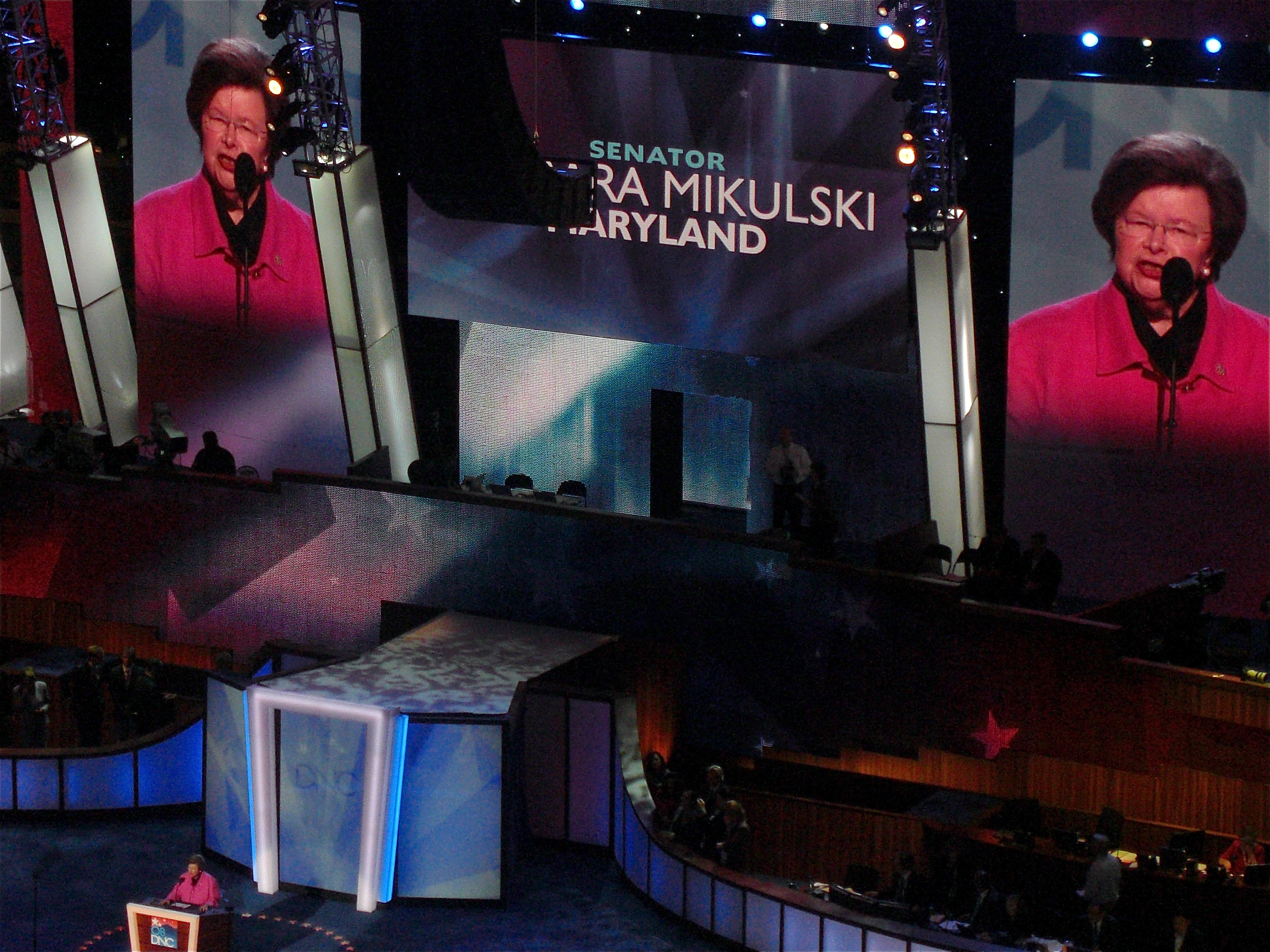 Barbara Mikulski speaks during the second day of the 2008 Democratic National Convention in Denver, Colorado, United States.